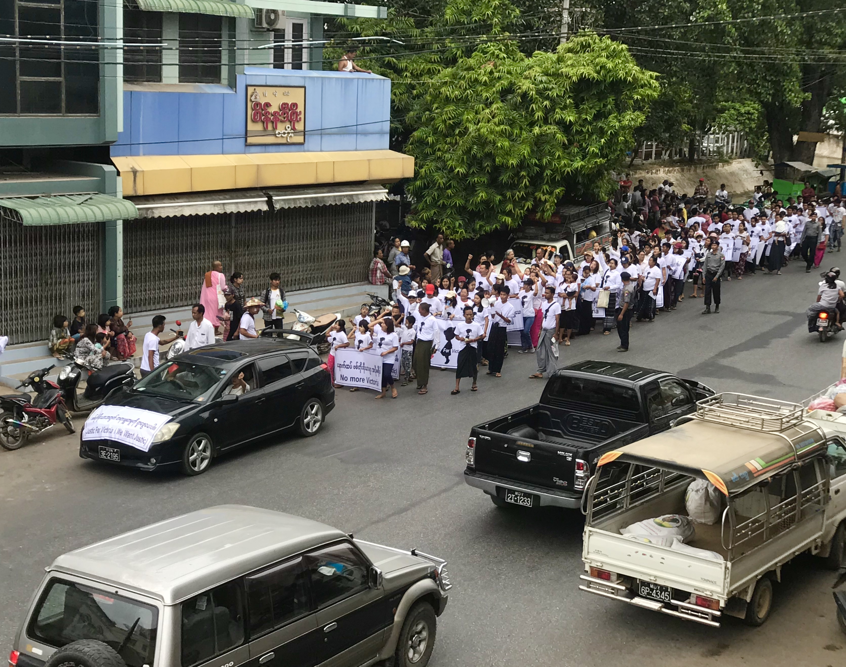 A lot of people protests for Naypyidaw Victoria rape case in Kyaukse on 14 July 2019